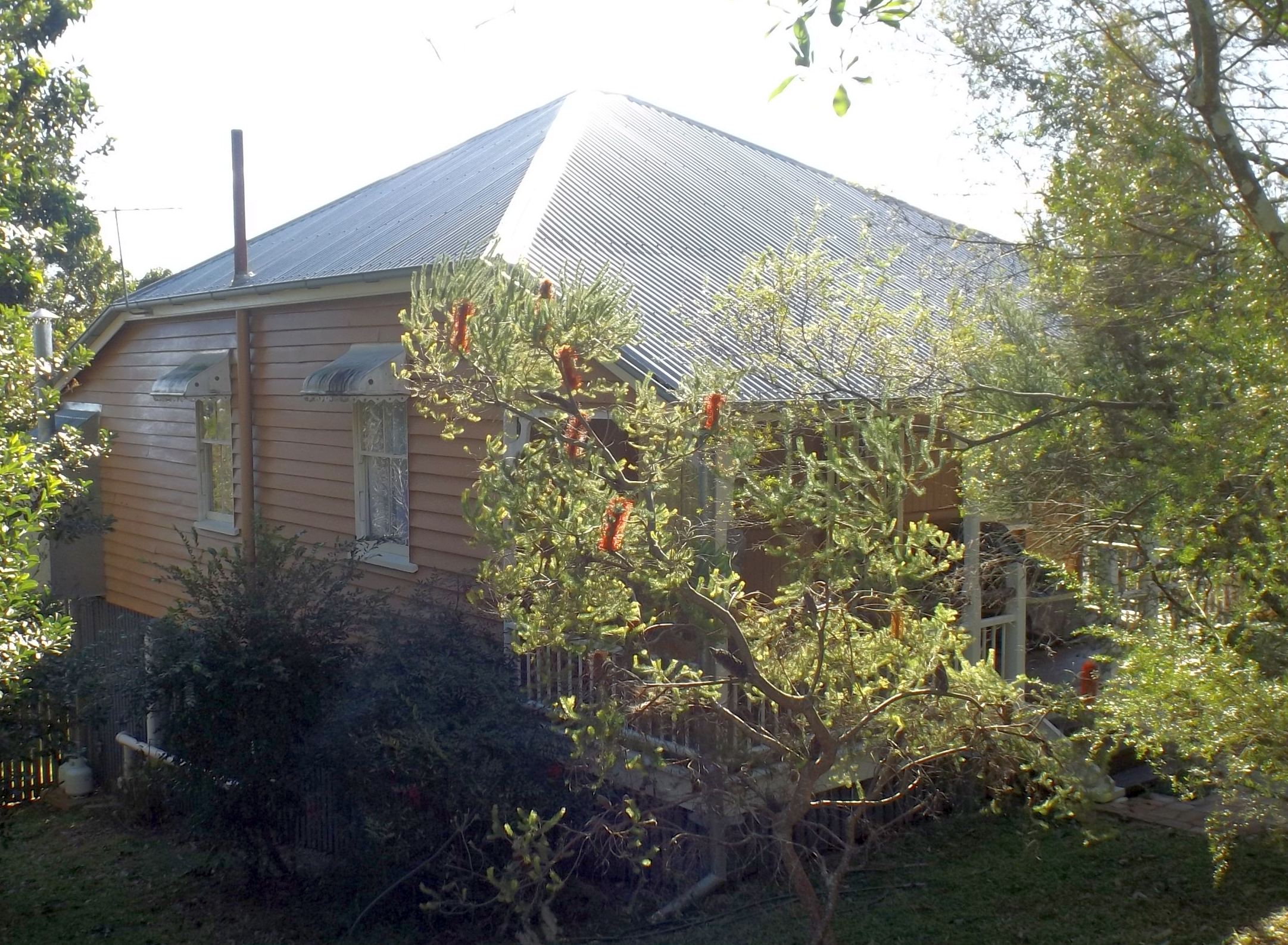 Photo of Strathearn residence at Alderley, Brisbane, Queensland, Australia.